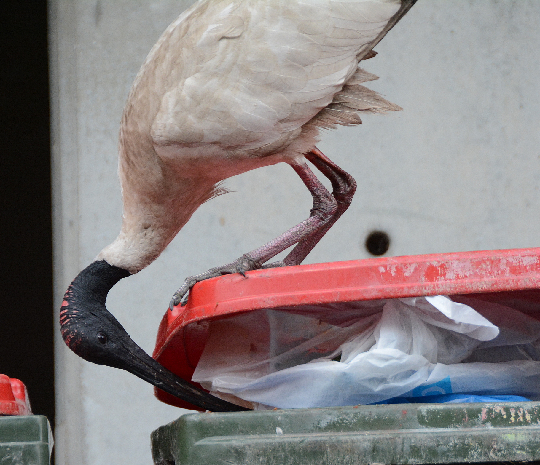 Ibis scavenging, Kensington, Sydney